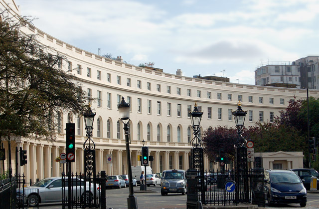 The east curve of Park Crescent, London